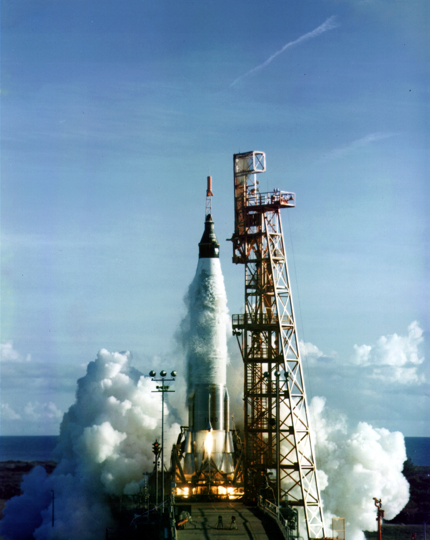 Mercury-Atlas 8 liftoff from Launch Complex 14.